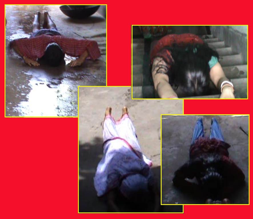 Performing the act of Dandi prior to the commence of Bipodtarini Pooja at Asansol - Mahishilla Colony